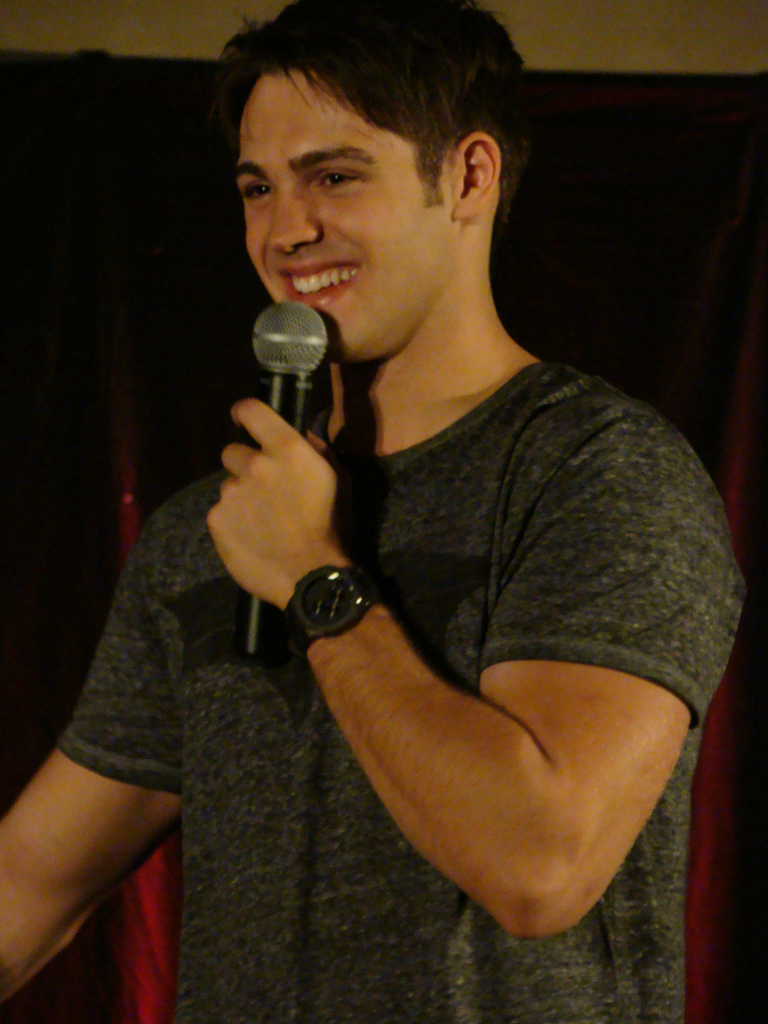 Interview with Steven R. McQueen from The Vampire Diaries in June 2012.